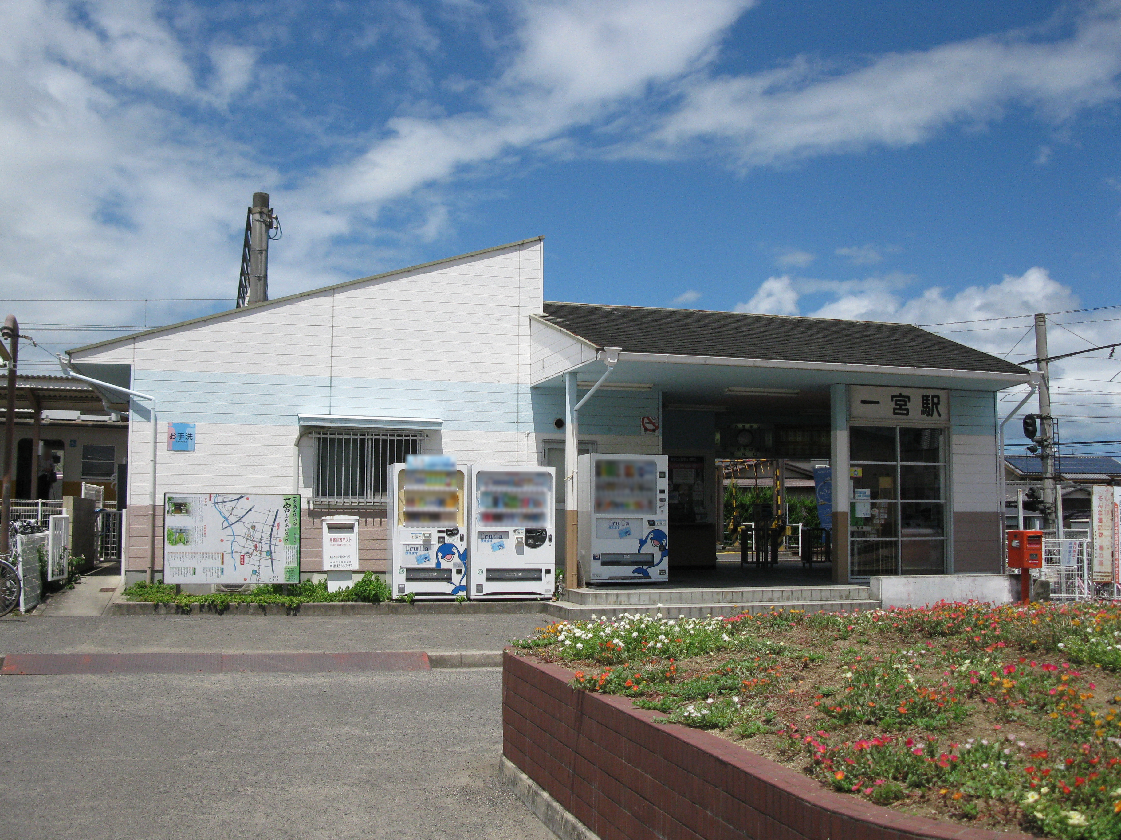 Ichinomiya Station building (Takamatsu-Kotohira Electric Railroad(Kotoden) Kotohira Line)